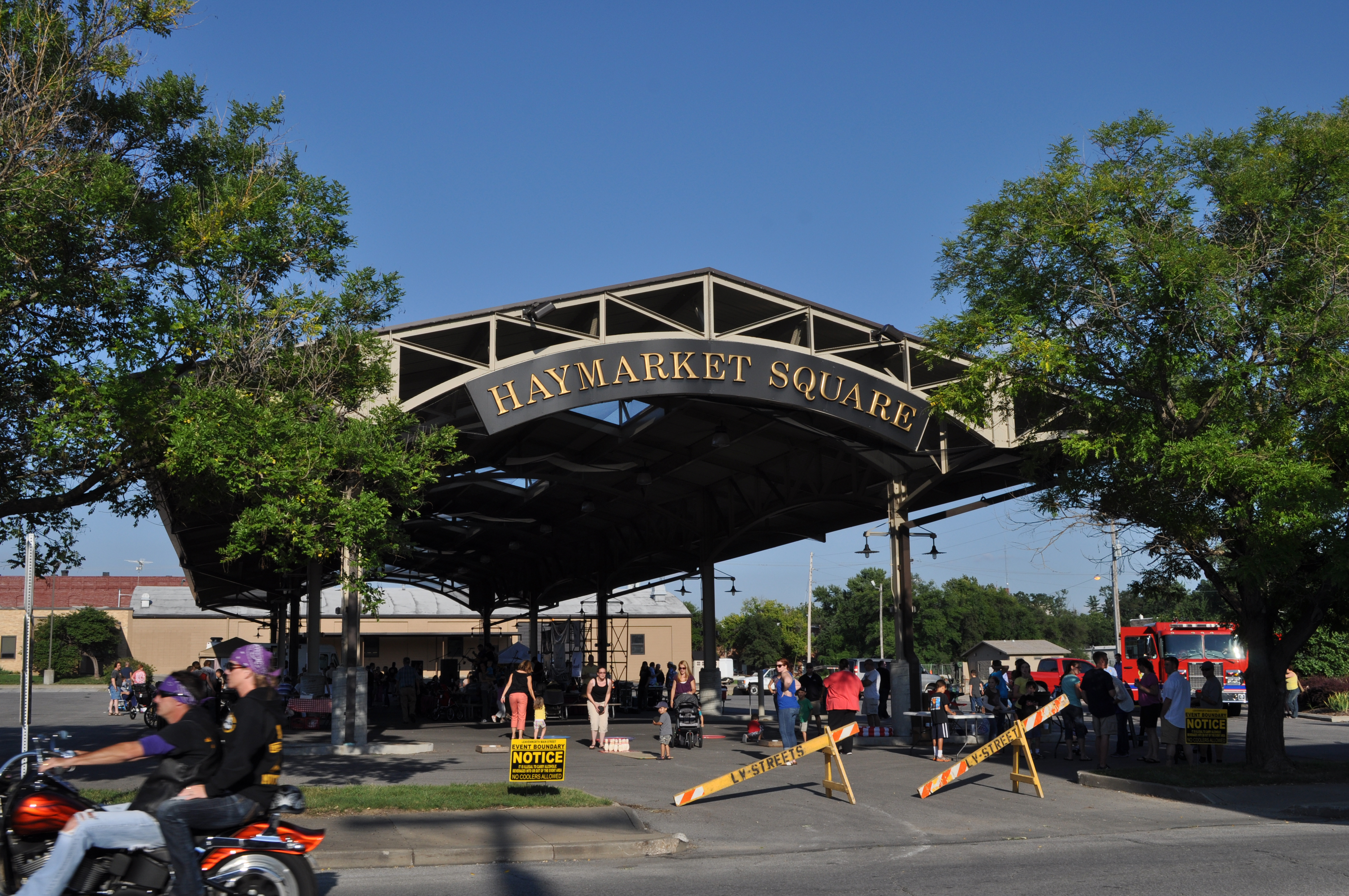 Leavenworth community members get ready to greet new members of the community newly arrived at Fort Leavenworth at Haymarket Square, 7th and Cherokee streets. Haymarket Square is also the site of a Farmer's Market, Leavenworth Main Street summer music concerts and an October Witches Ball.